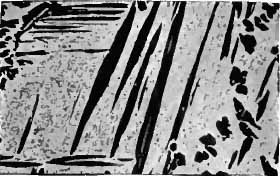 Photomicrograph of bronze (tin-copper alloy).